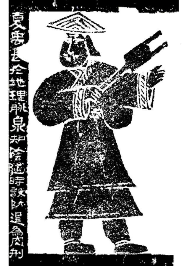 Clean version of File:大禹治水圖.jpg.Bân-lâm-gú: Tāi-ú tī-tsuí-tôo. 大禹治水圖。